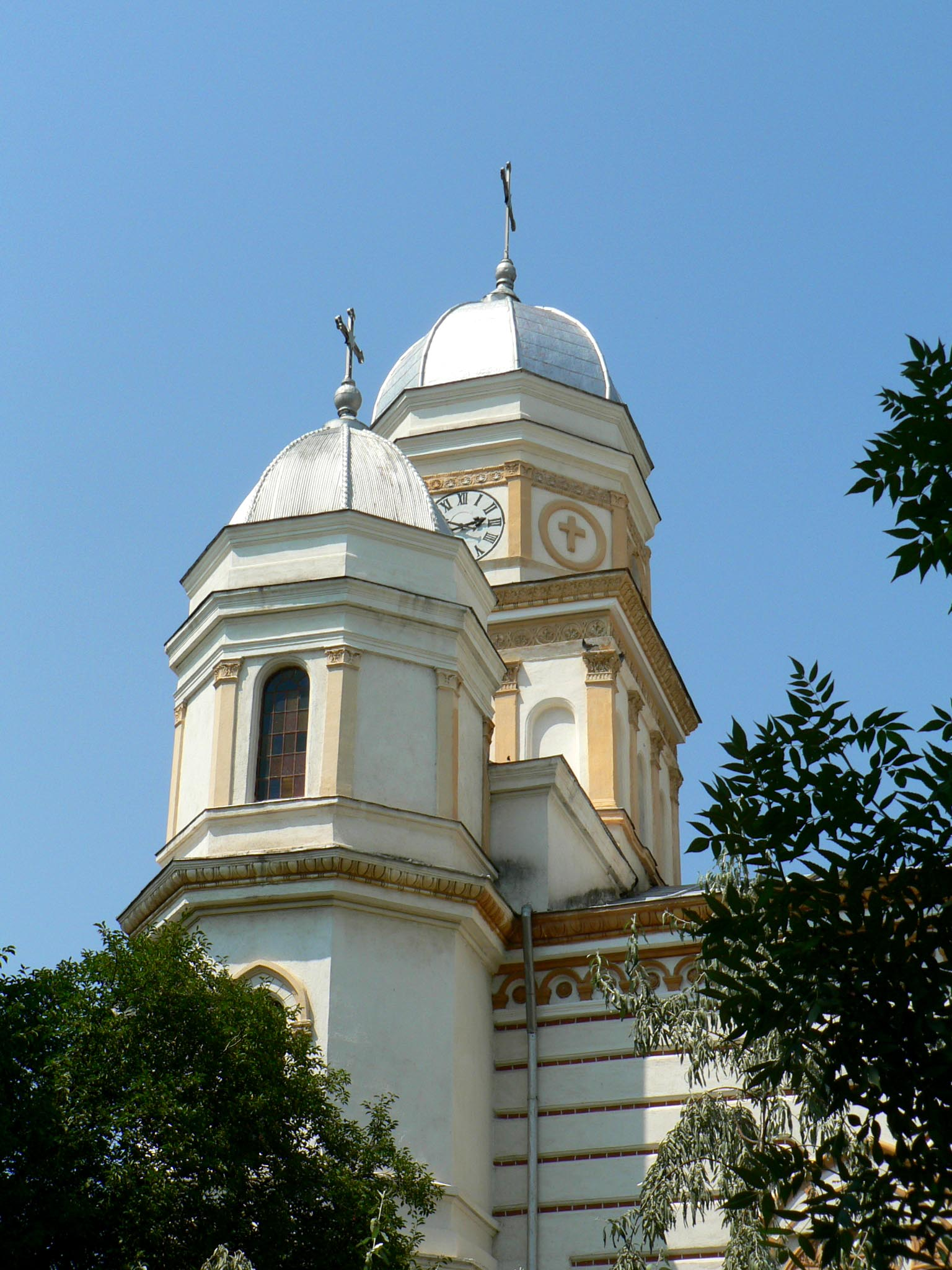 Corabia Saint Trinity Cathedral.